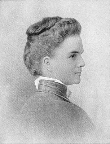 Portrait of Adella Hunt Logan included in African American Women on Race published in 1902